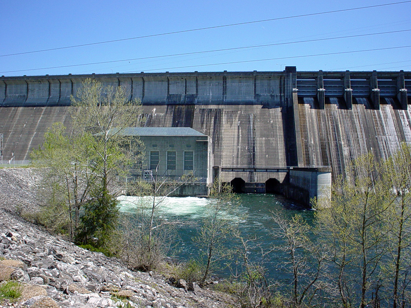 I took this photo in the spring of 2005.